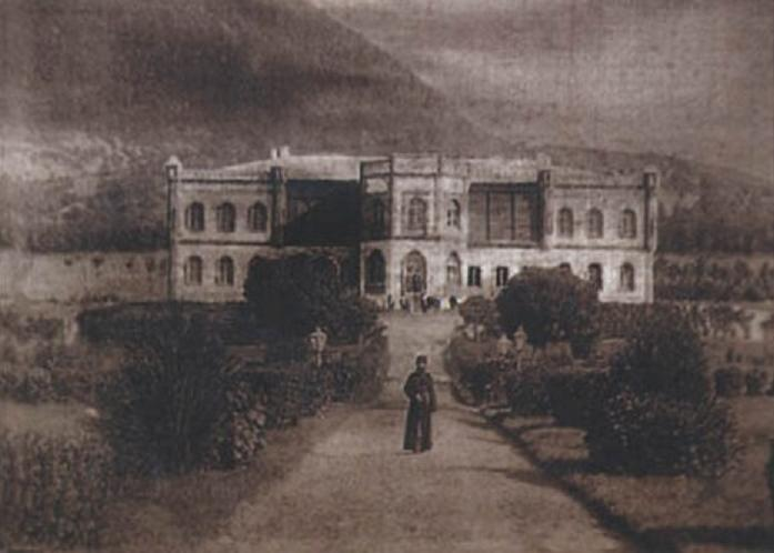 The Gordi Palace in what is now the region of Imereti was built as a summer residence of the Dadiani, princely dynasty of Mingrelia, in the 1840s. It was designed by the Russian architect Leonid Vasiliev. The palace now stands in ruins.